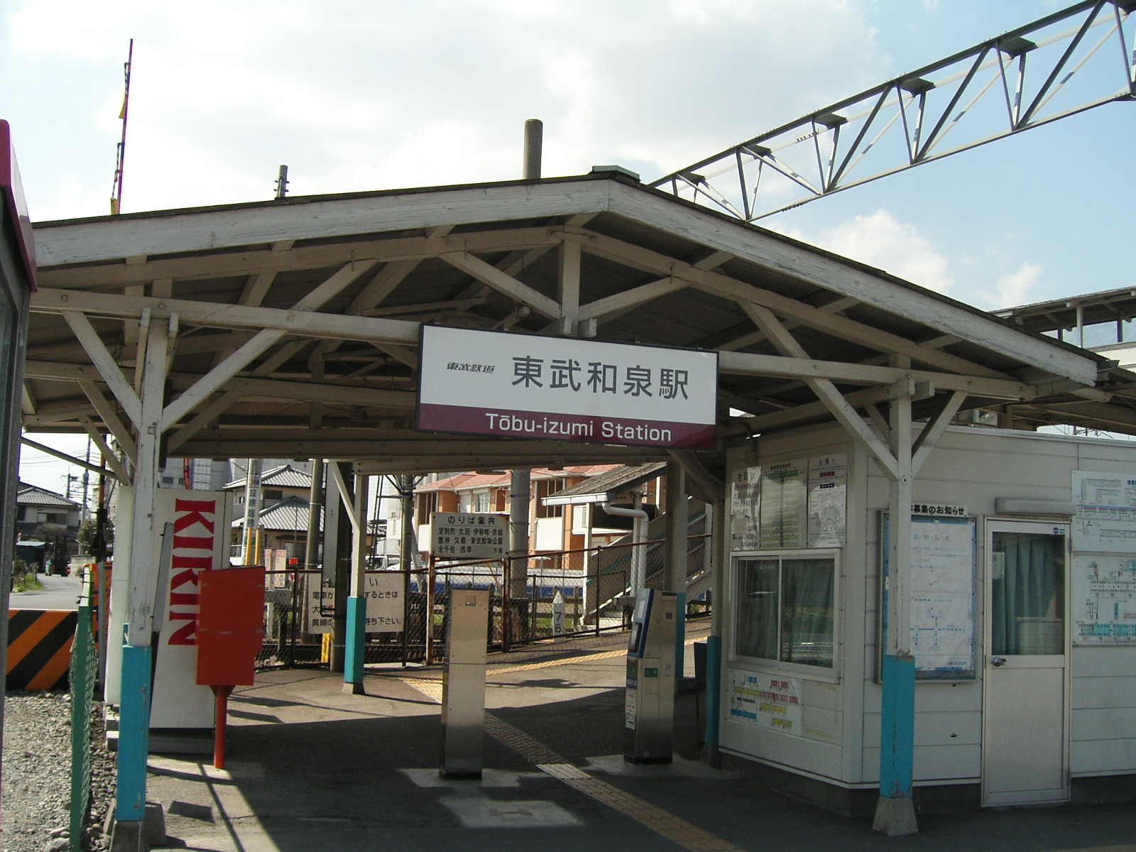 Tobu Izumi station in Tobu Isesaki Line in Ashikaga city, Tichigi pref, Japan 東武和泉駅